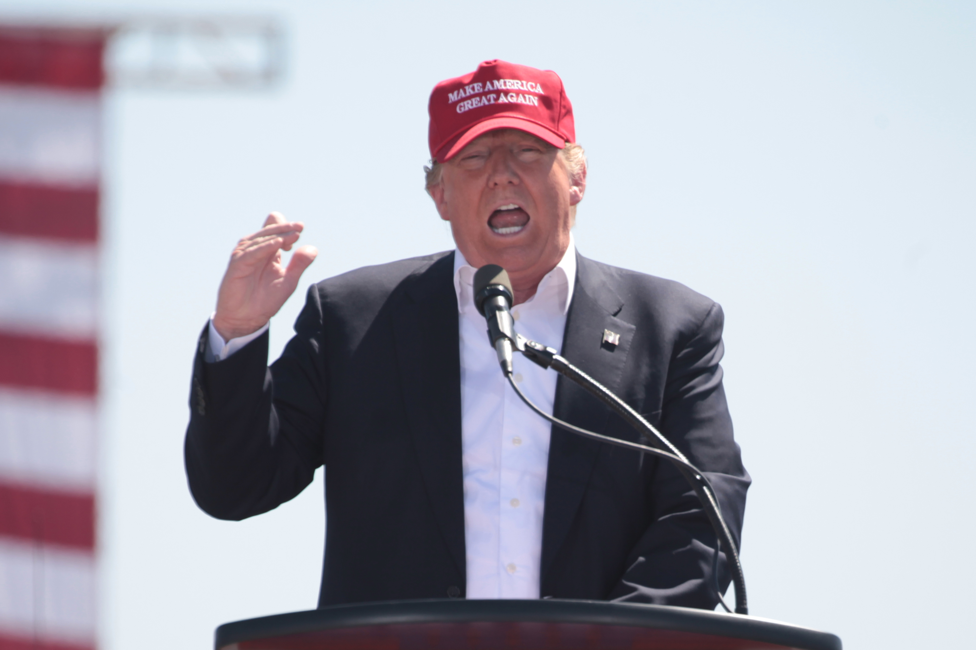 Donald Trump speaking with supporters at a campaign rally at Fountain Park in Fountain Hills, Arizona.